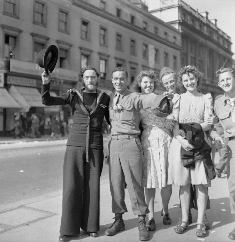 Britain Hears News of End of Jap War- Celebrating Victory in Japan, London, England, UK, c 15 August 1945 A New Zealand sailor raises his bowler hat in the sunshine as he celebrates Victory in Japan with several smiling American soldiers and English civilian women on the Strand in London. One of the GIs has a small spray of flowers pinned to his shirt.